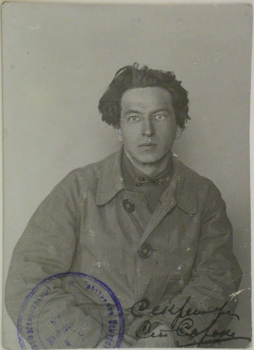 Gelatin silver print 11.0 x 7.9 cm CCA PH1998.0003.001 Canadian Centre for Architecture